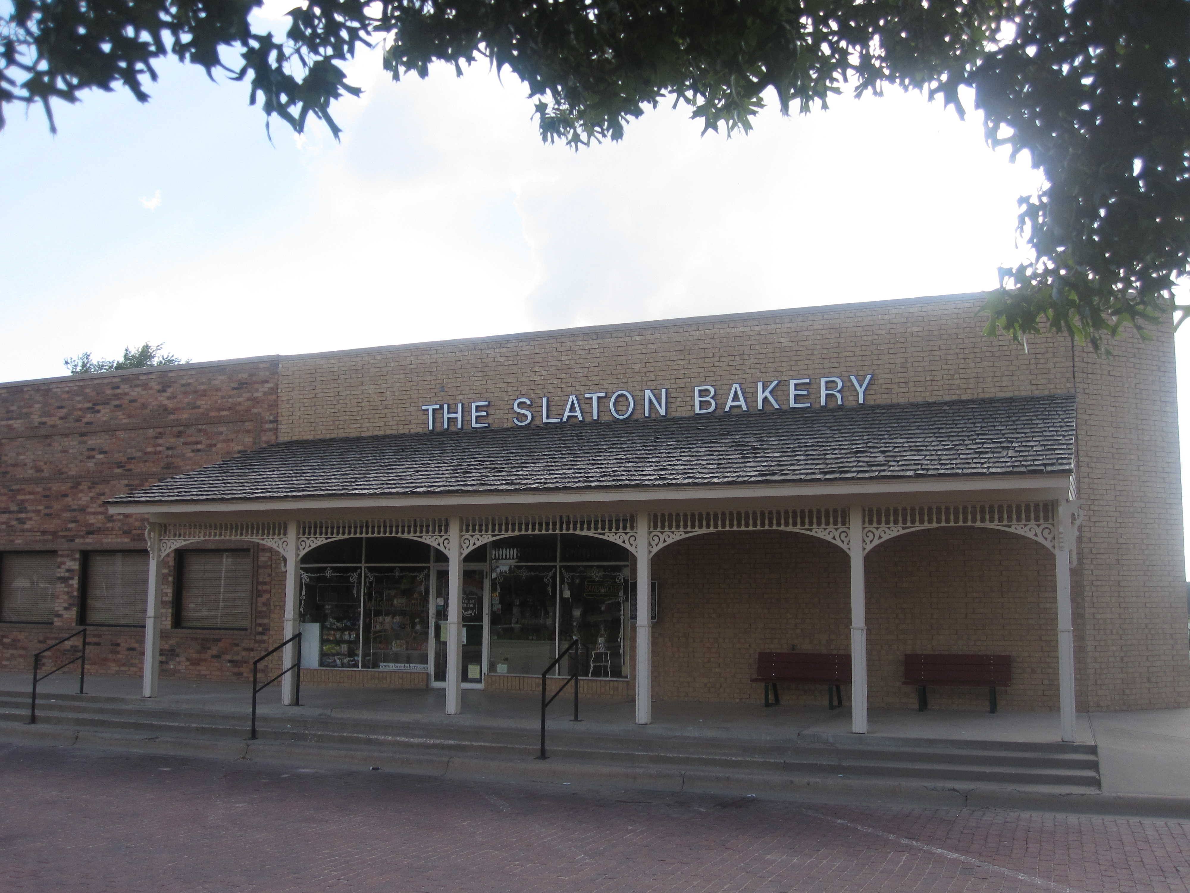 I took photo with Canon camera in Slaton, TX.